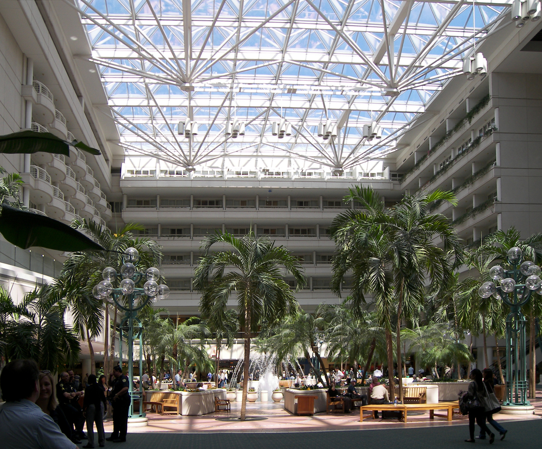 An interior view of the Orlando International Airport atrium in Orlando, Florida, United States.